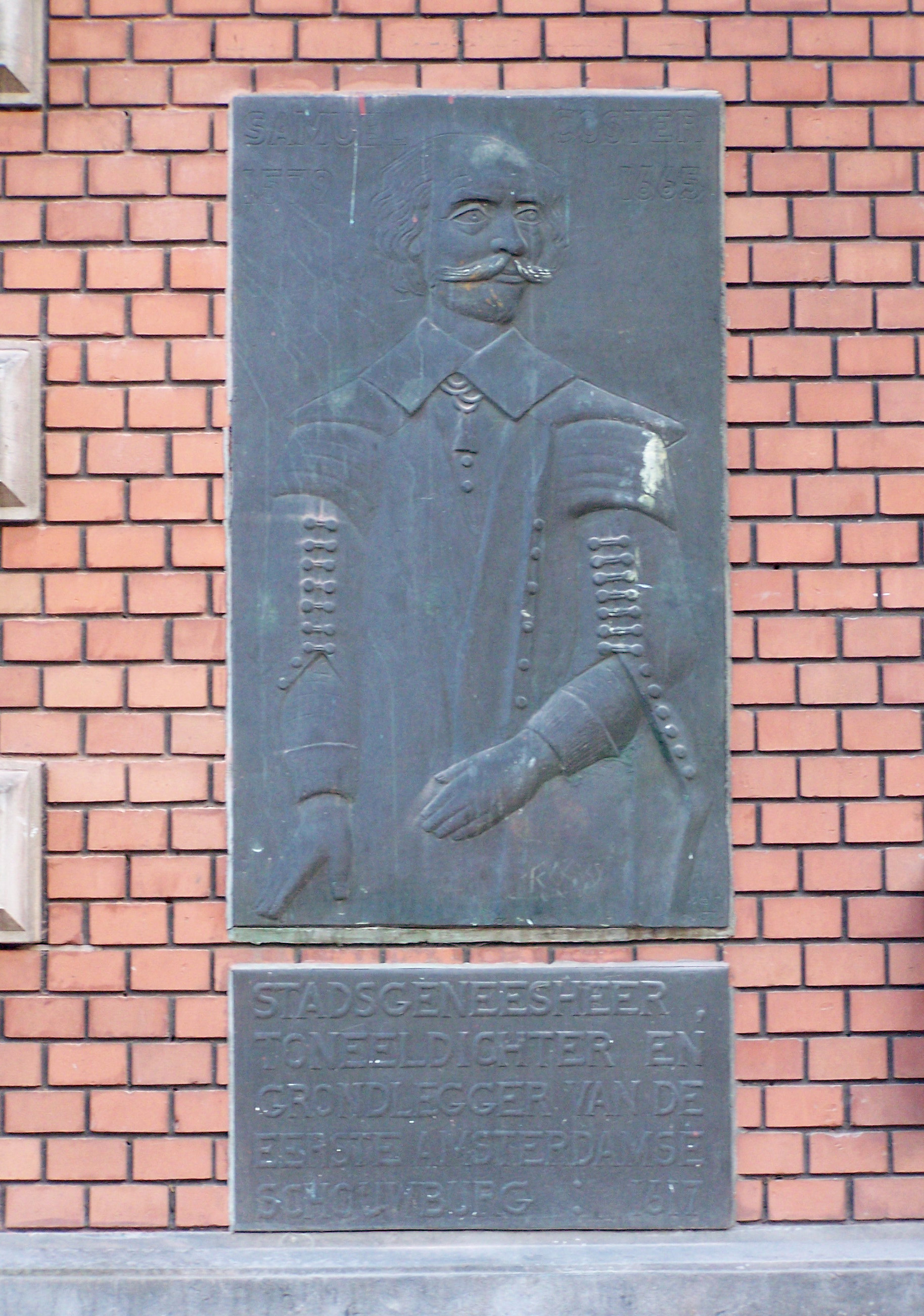 memorial relief of Samuel Coster at the sidewall of his theatre at te Leidseplein Amsterdam. Made by Leo Braat in 1951.